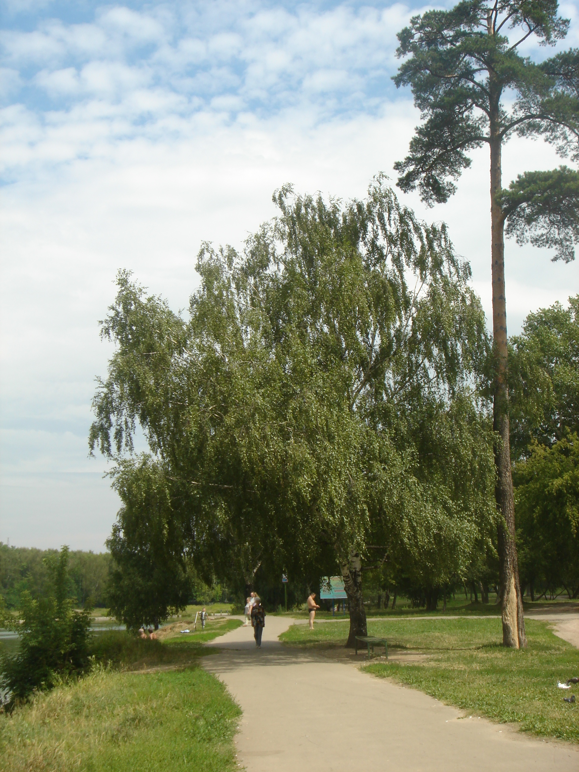 Moscow. Losinoostrovsky district. Jamgarovsky pond